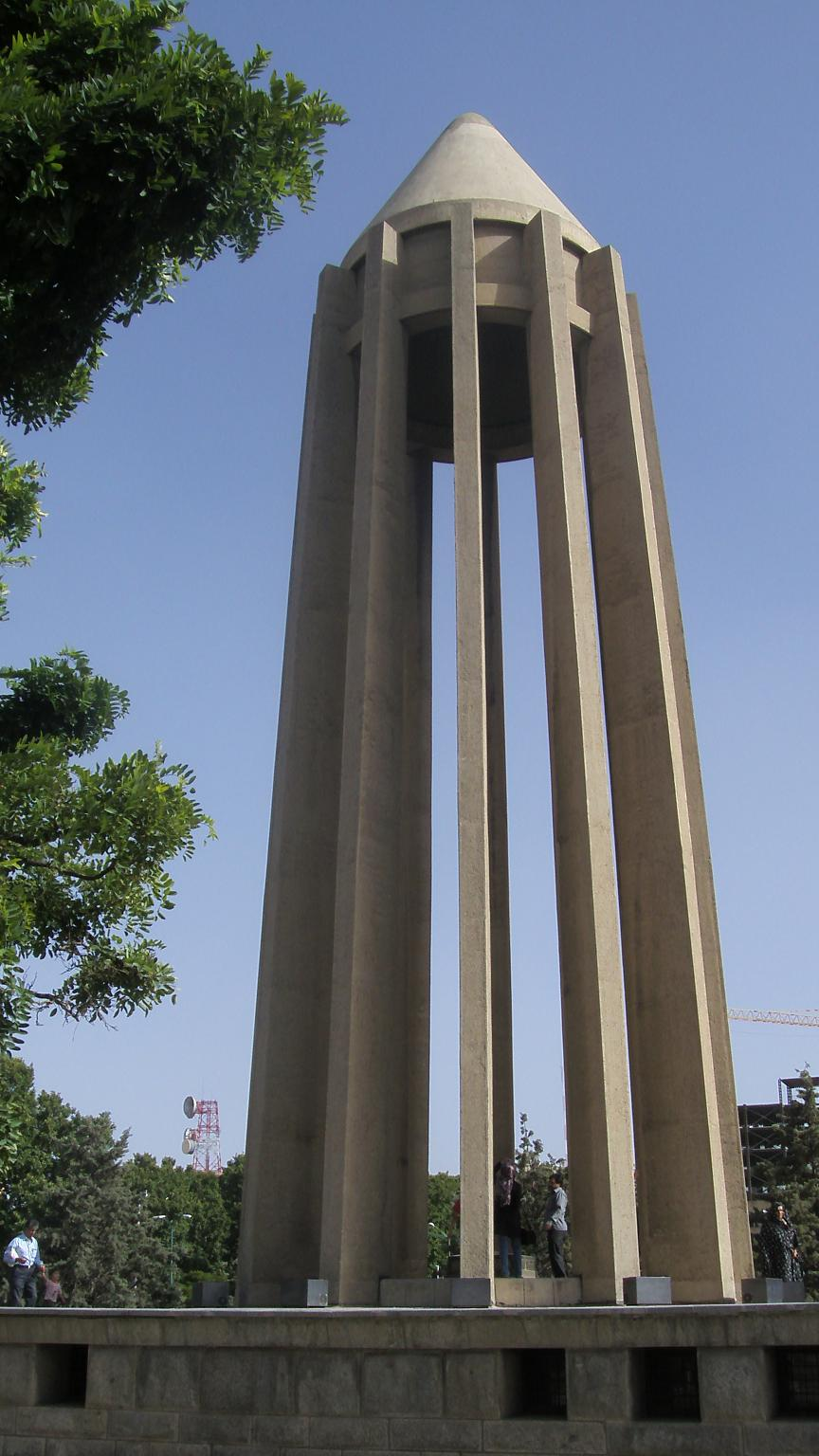 Tomb of Avicenna, Hamedan, Iran